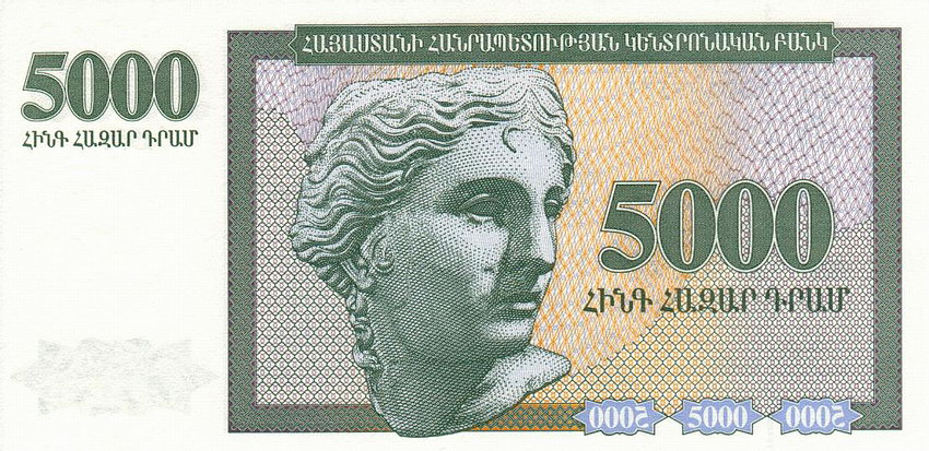 5000 dram 1995